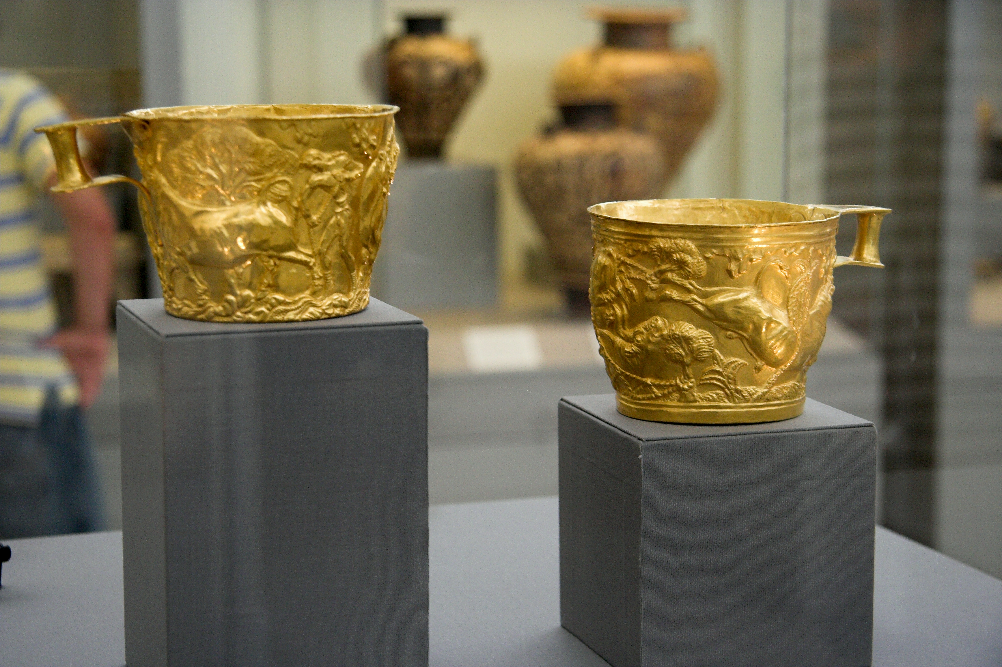 Gold Cups with reliefs. Vafio (Vapheio at Sparta), Peloponnese. Late Bronze Age, 1500 to 1450 BC. National Archaeological Museum of Athens, N 1759 (left), N 1758 (right).